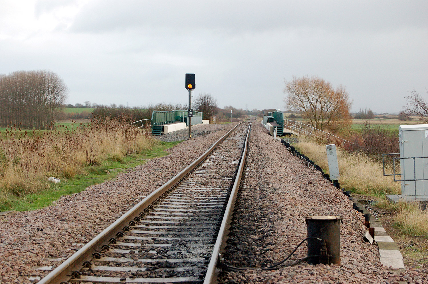 Hawk Bridge carries the Ely to Newmarket railway over the River Great Ouse south of Ely, Cambridgeshire, United Kingdom.